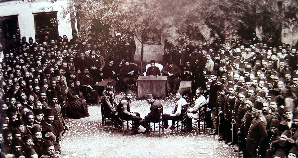 Ottoman Court in Kastoria